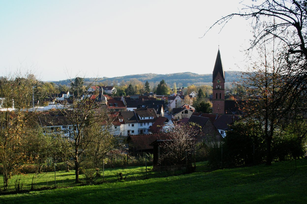 Bammental, a small village near Heidelberg, Germany